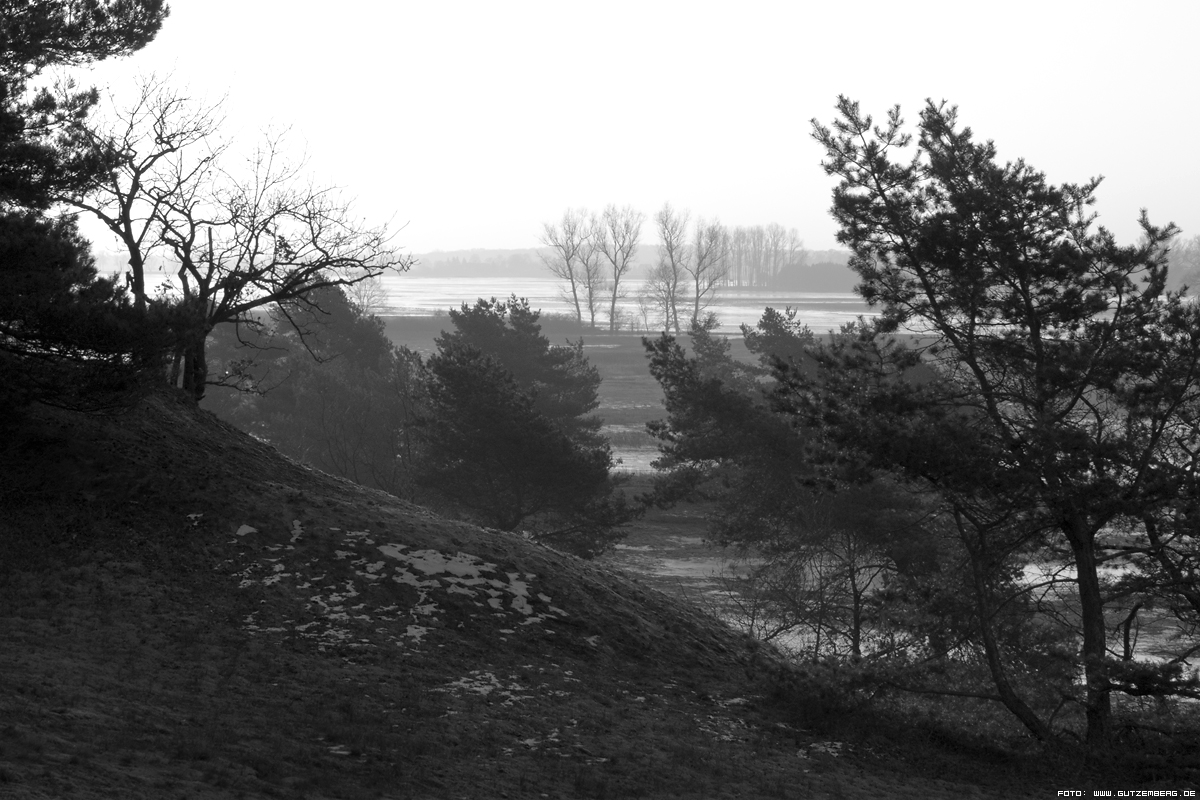 The nature reserve Bollenberg near Gothmann, Flood 2011